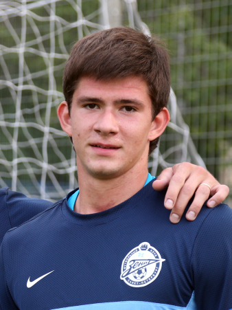 Yegor Baburin as a payer of FC Zenit St. Petersburg Youth